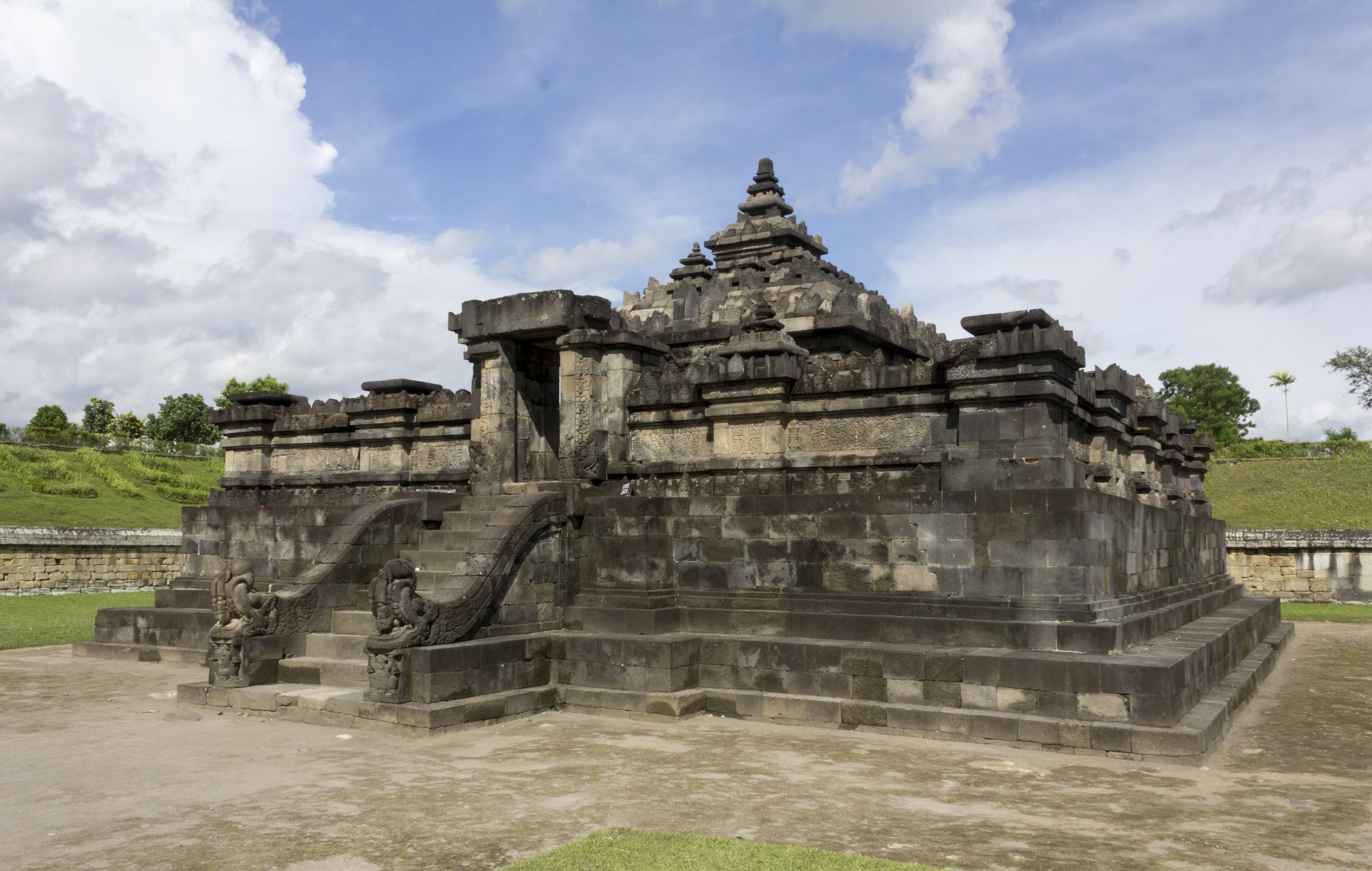 Main temple of Candi Sambisari, Sleman, Yogyakarta